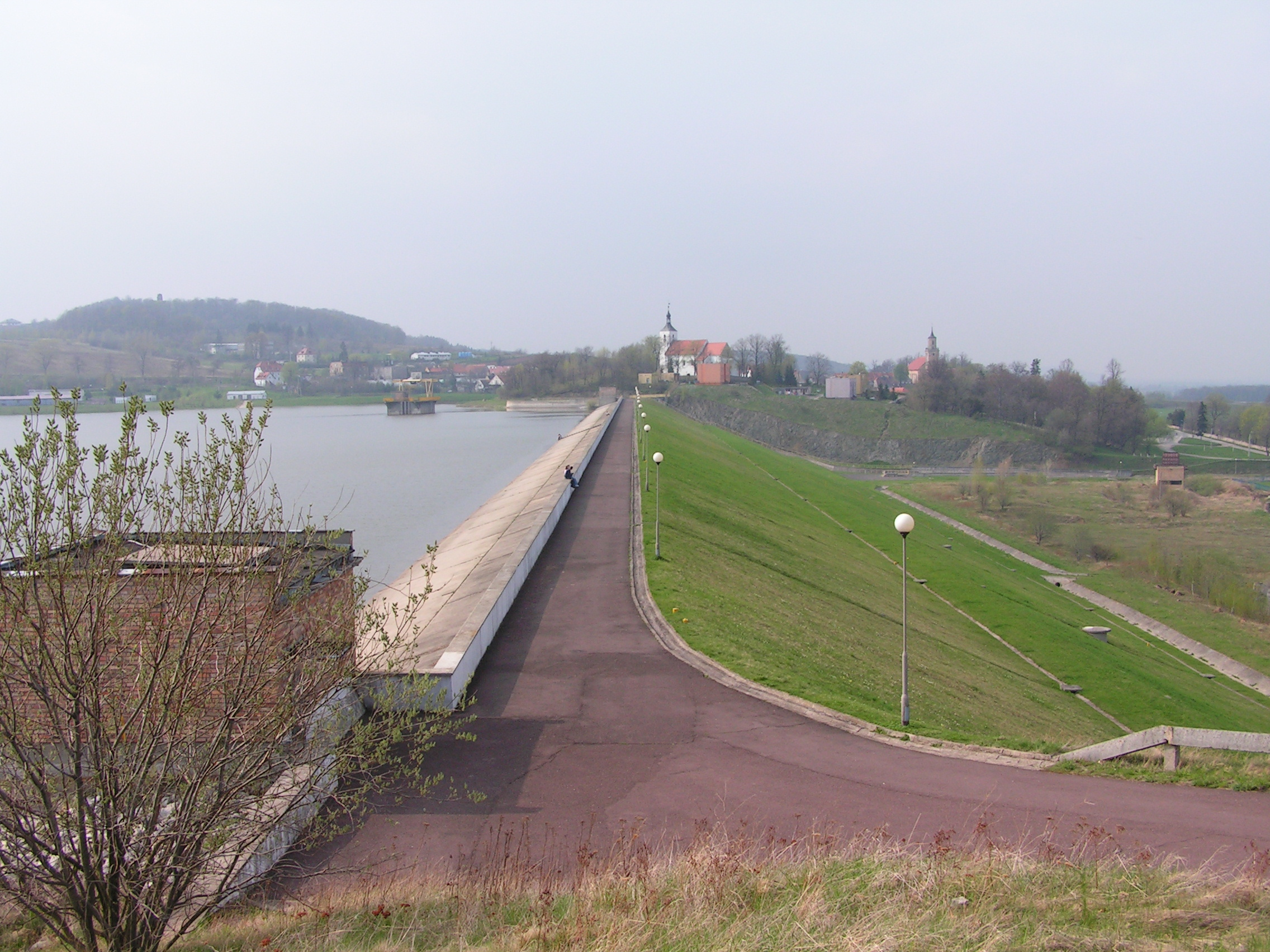 Dobromierz Lake, Lower Silesian Voivodship, Poland